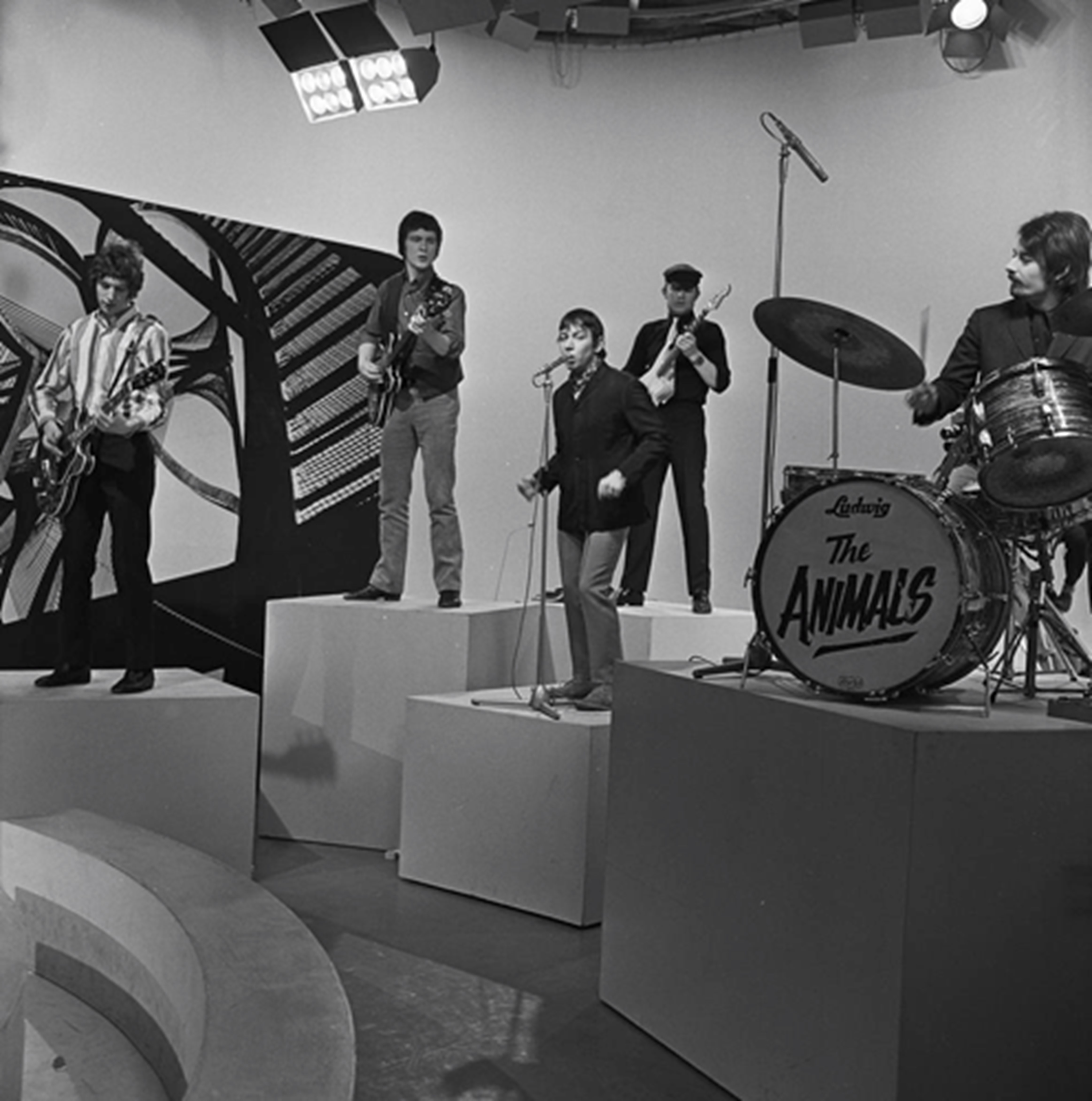 Eric Burdon & The Animals performing the songs "Hey Gyp" and "See see rider" in the Dutch TV programme Fanclub. Recorded 7 January 1967, broadcast 13 January 1967